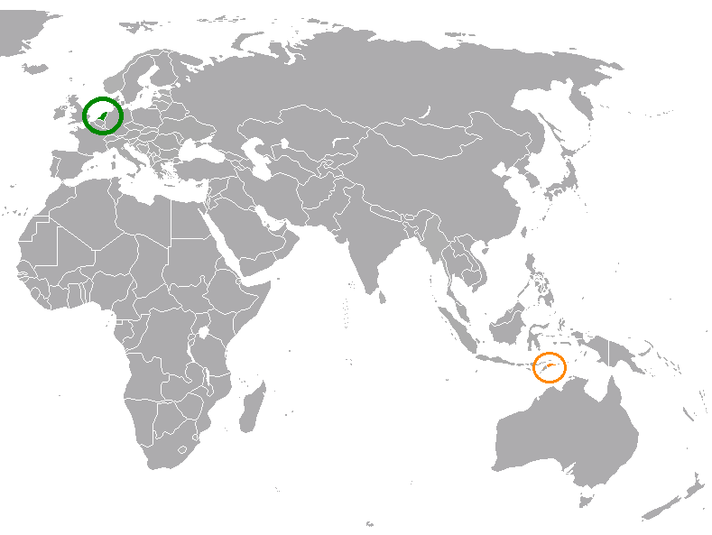 Map showing locations of both the Netherlands and East Timor